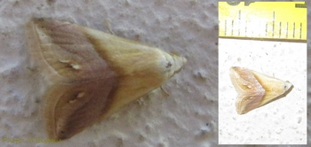 Eublemma cochylioides (Guénée, 1852)